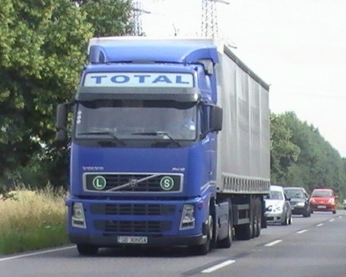 A Volvo FH12 truck in Eschweiler in 2008.